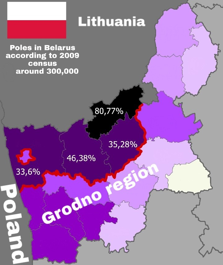 Belarusian municipalities with Polish minority exceeding 30% of the total population